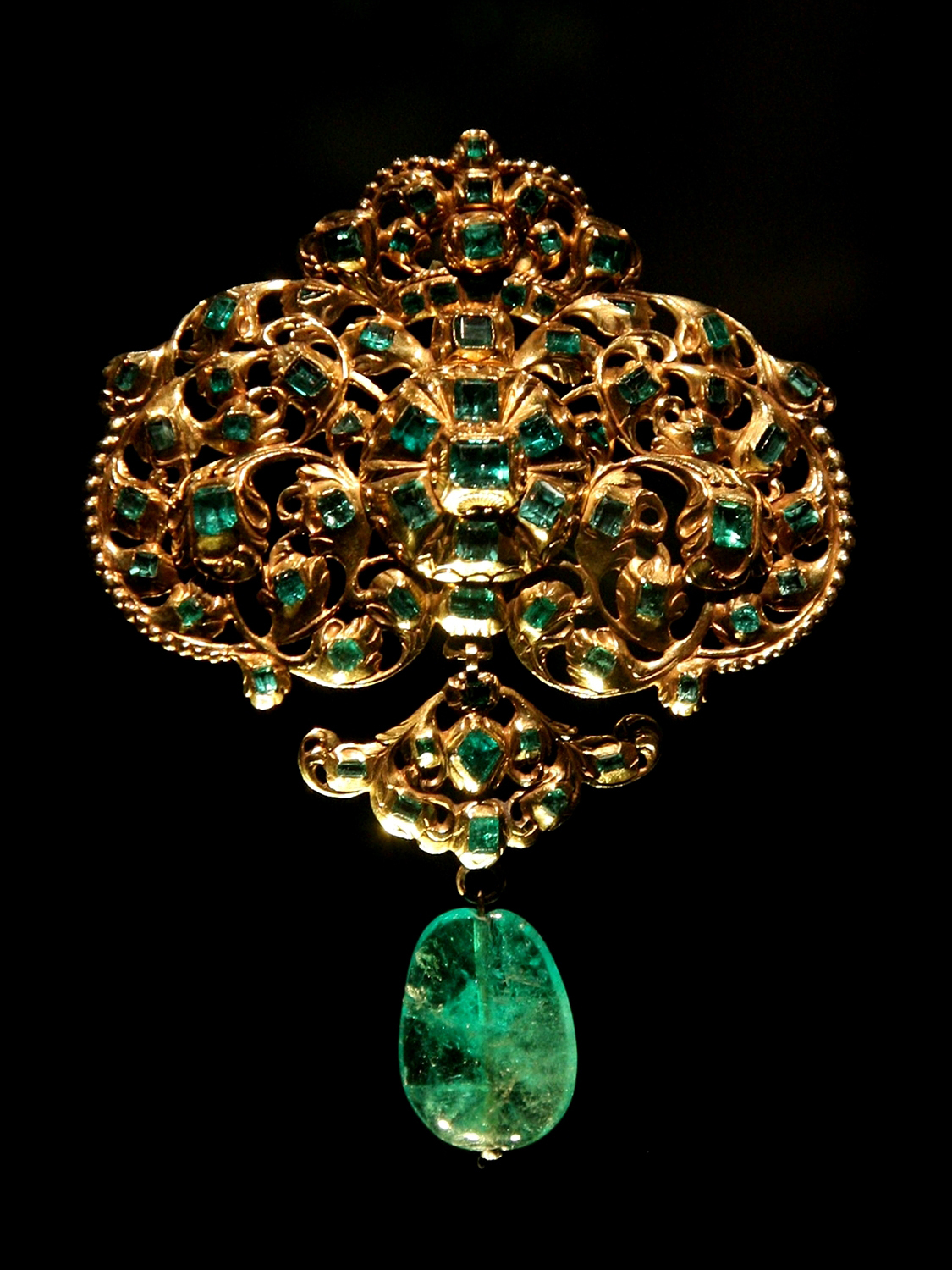 Gold, set with table-cut emeralds, and hung with an emerald drop from Colombia, currently exhibited at Victoria and Albert Museum